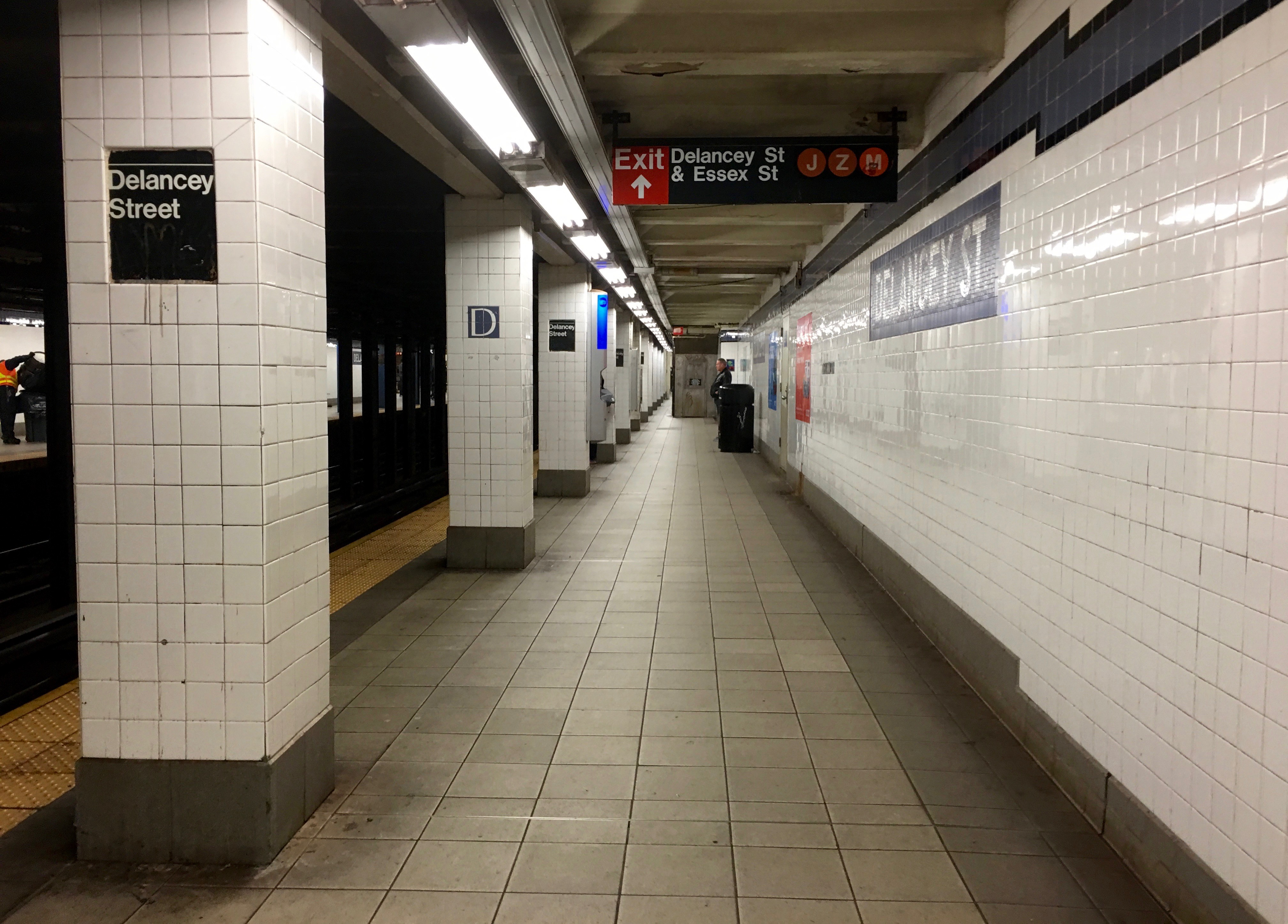 Uptown platform at Delancey Street on the 6th Avenue line.